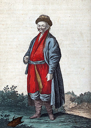 Kalmyk.